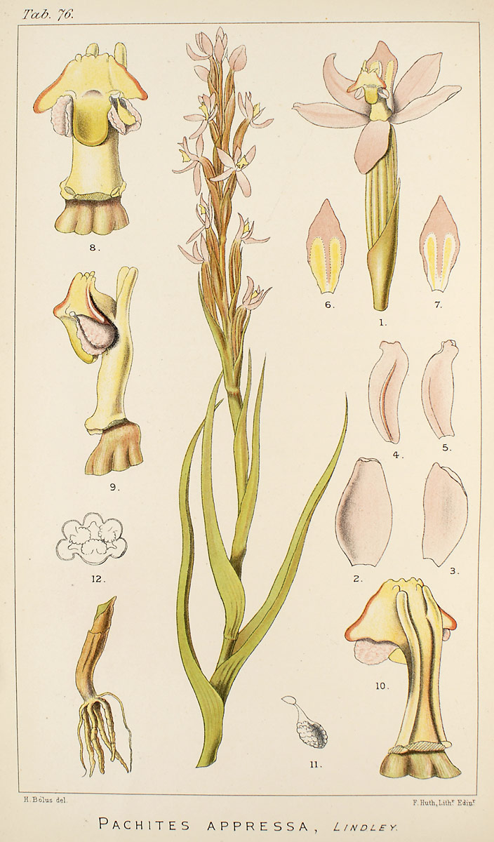 Illustration of Pachites appressa from Harry Bolus Icones Orchidearum Austro-Africanarum